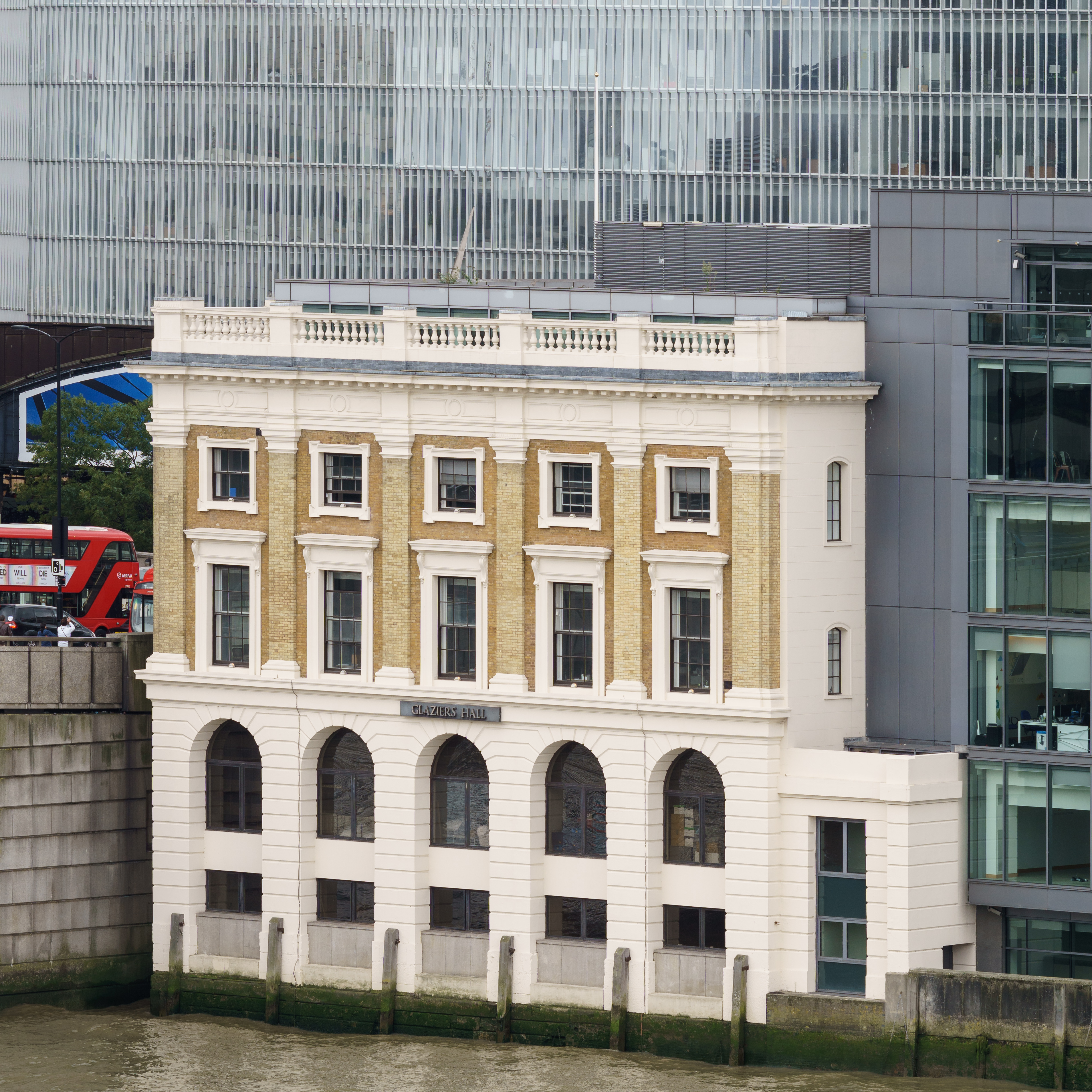 Glaziers Hall from Nomura